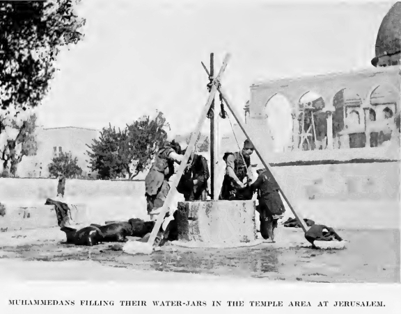 well in the temple mount 1913